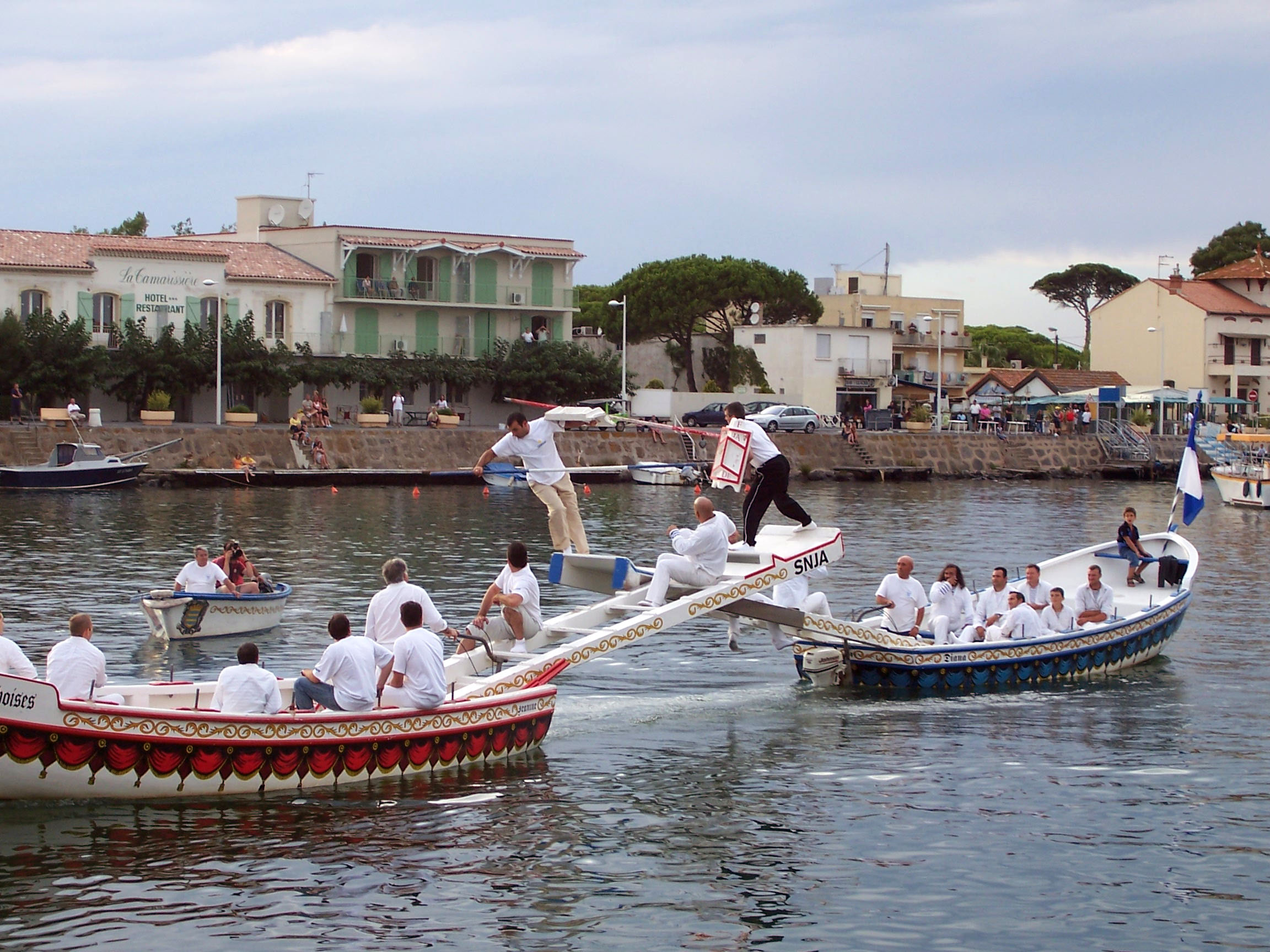 "Fishermen Joust" on the river Hérault in Agde, France.